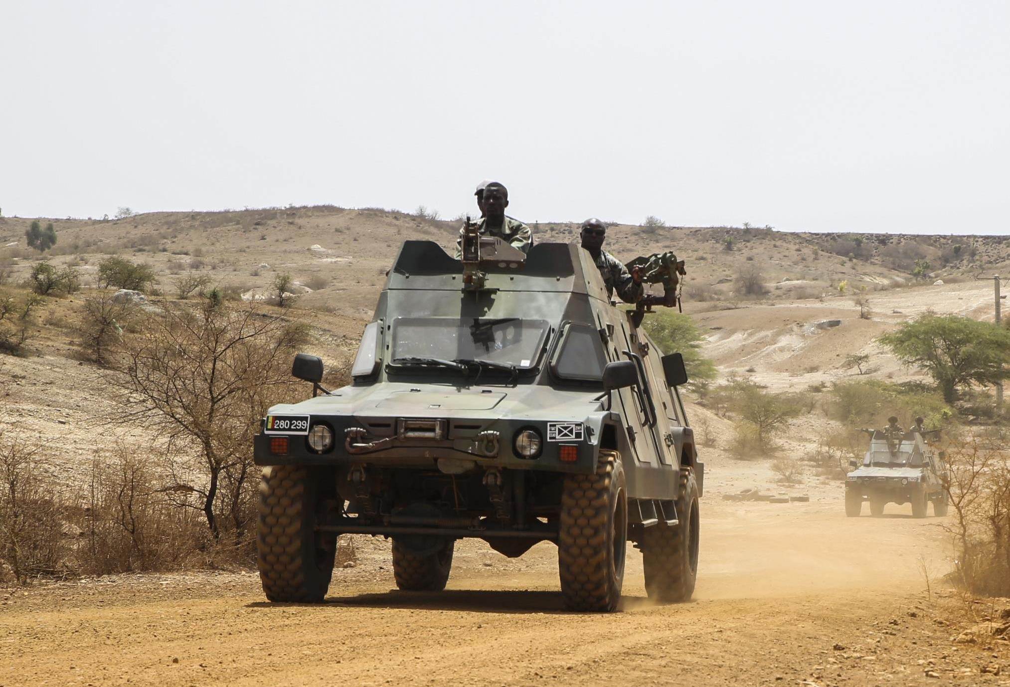 Armored vehicles with Senegal’s 5th Contingent in Mali and U.S. Marines with Special Purpose Marine Air-Ground Task Force – Crisis Response – Africa conduct convoy operations during a peacekeeping operations training mission at Thies, Senegal, June 6, 2017. Marines and Sailors with SPMAGTF-CR-AF served as instructors and designed the training to enhance the soldiers’ abilities to successfully deploy in support of United Nations peacekeeping missions in the continent. (U.S. Marine Corps photo by Sgt. Samuel Guerra/Released)